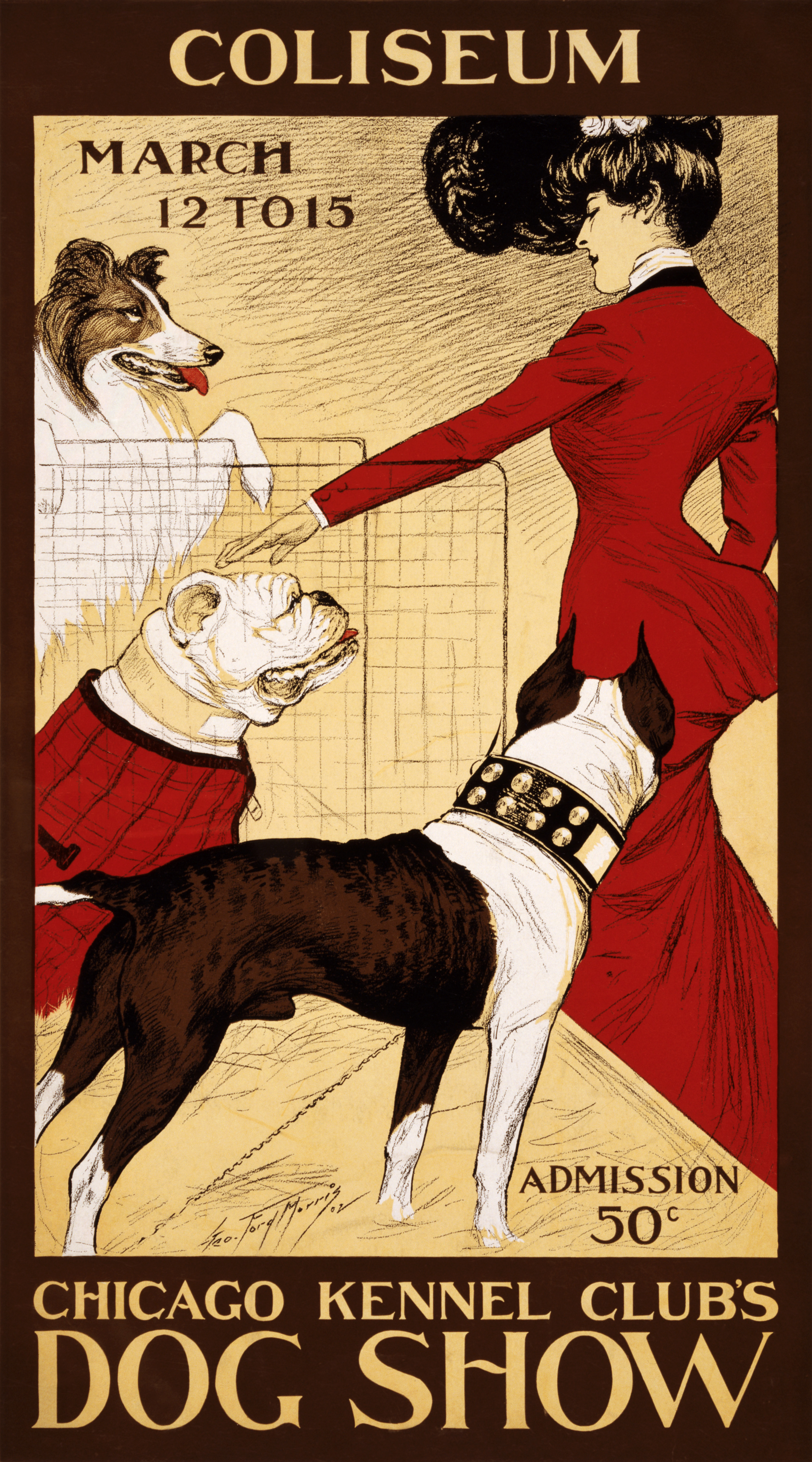 Poster showing a woman admiring dogs at the Chicago Kennel Club's dog show. Text: "Coliseum, March 12- to 15. Admission 50c. Chicago Kennel Club's Dog Show."